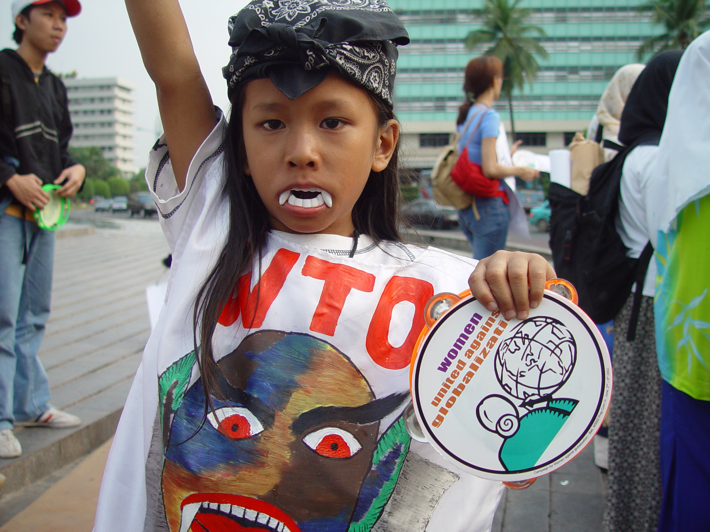 Protest vigil against the polices of the WTO (World Trade Organization) in Jakarta, Indonesia.